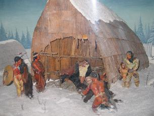 Crèche amérindienne